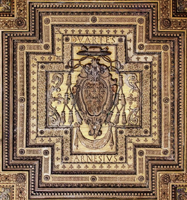 Cardinal Odoardo Farnese; Coat of Arms in Palazzo Farnese (Rome)